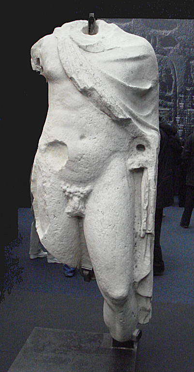 Statue of Hermes/Ptolemy. Ptolemaic Egypt. Grand Palais exhibition. Personal photograph 2006. White marble torso of Hermes discovered in the southern branch of the Island of Antirhodos in Alexandria harbour.